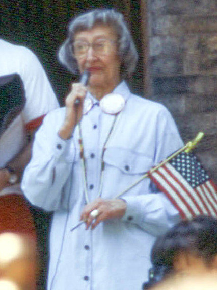 Dawn Clark Netsch was a professor of Law and Northwestern University and long time Illinois political figure. She was the first woman from a major political party to run for Governor (1994). Chicago